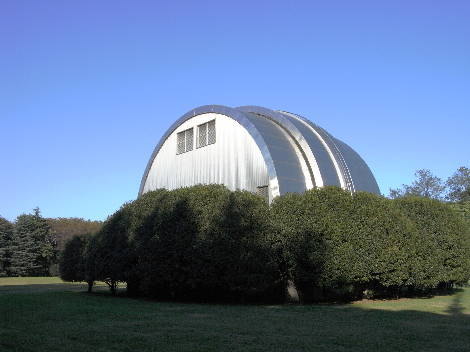 Dome of the Photometric Meridian Circle in Mitaka Campus of National Astronomical Observatory of Japan, in Mitaka city, Tokyo, Japan.